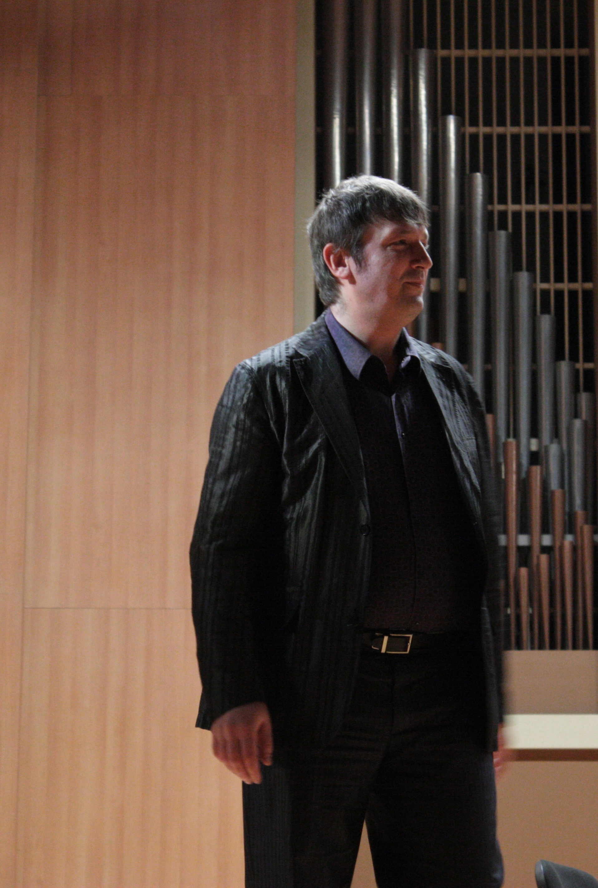 The photo of Russian pianist, Boris Berezovsky.